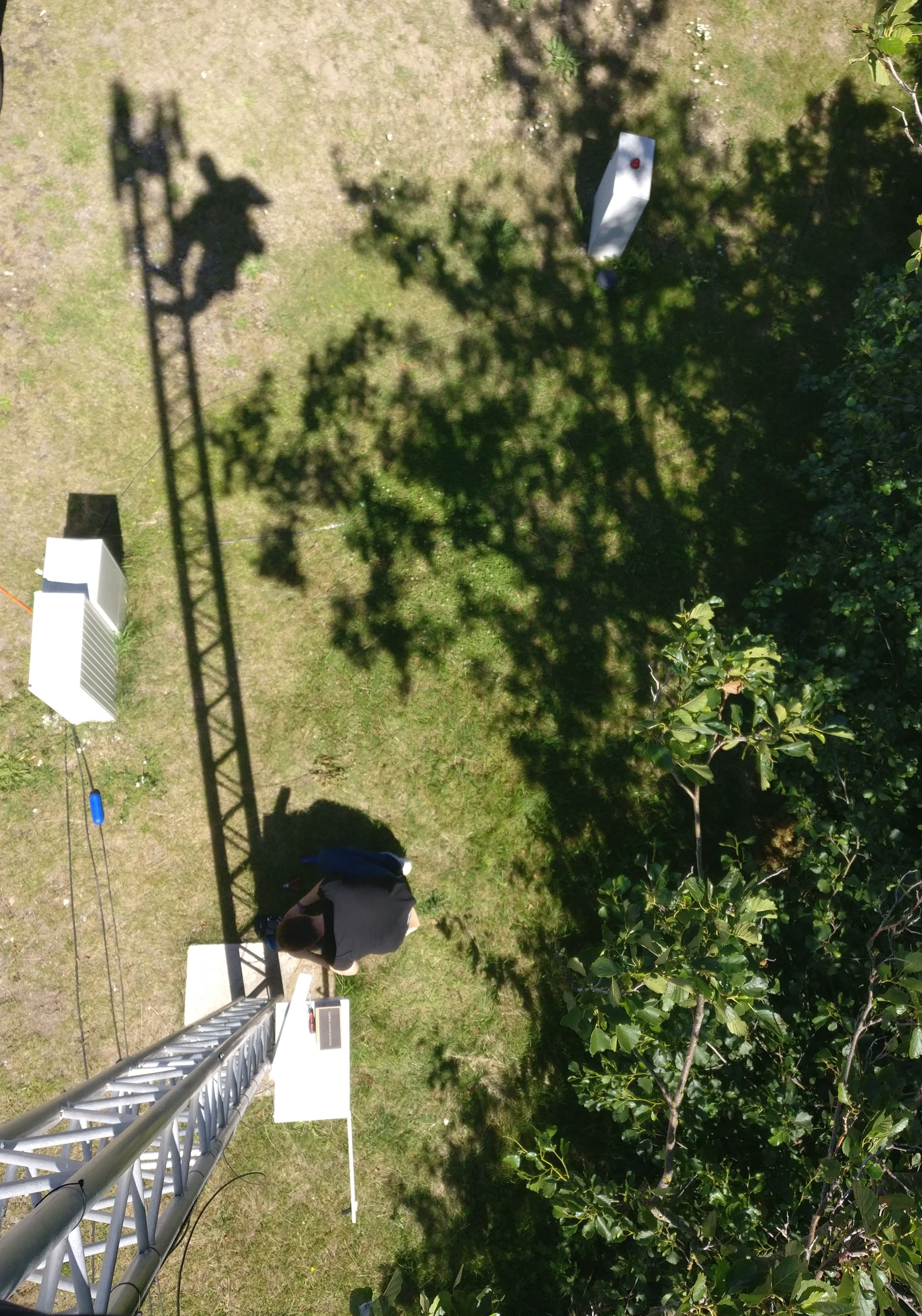 Employees of a Wireless Internet Service Provider working on an antenna support on the island of Fehmarn. The antenna support mast consists of truss technology from the event technology sector.